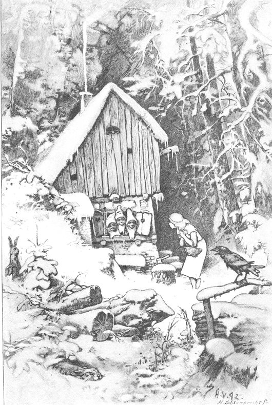 illustration of the Brothers Grimm fairy tale "The Three Little Men in the Wood"